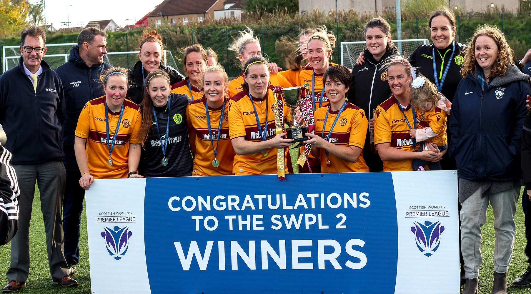 The Motherwell Ladies team are presented with the 2018 SWPL2 trophy by the SWF following their 1-1 draw with Hearts at Braidhurst.